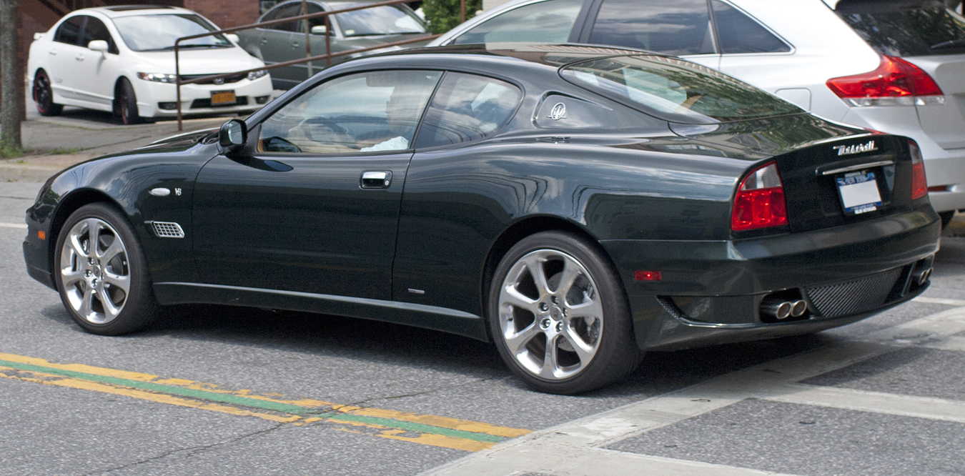 2005-2007 Maserati Coupé 4200 with Vintage package - this consists of a mesh front grille, chrome door handles, and chrome outlets on front fenders meant to evocate those of the 1957 3500GT, as well as other details.